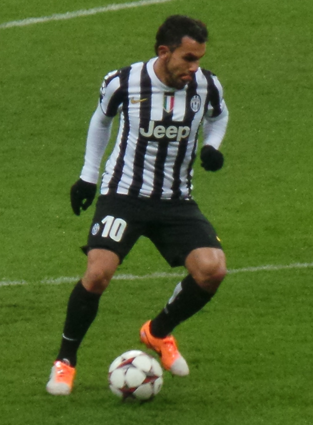 Carlos Tévez